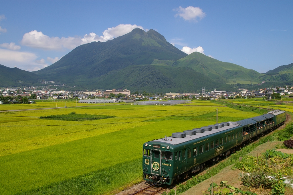 JR Kyushu "Toro-Q" Joyful Train DMU set between Yufuin and Minami-Yufu. Southwest side Mount Yufu in the background.